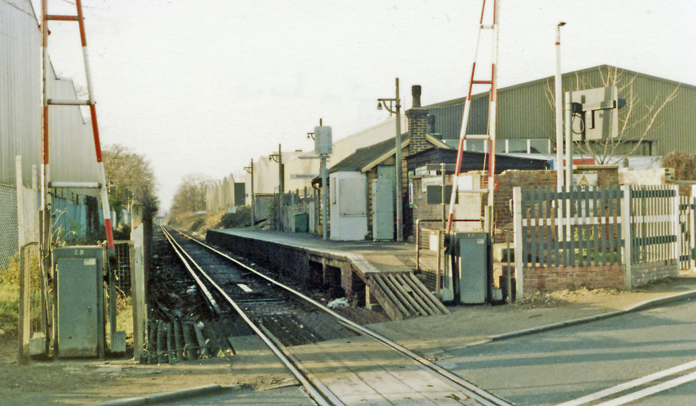 Beddington Lane station, 1983. View westward, towards Wimbledon: ex-LBSCR West Croydon - Wimbledon line. Seen in its latter days as a minor single-line of the suburban Southern Electric. The site went on to become part of the Croydon Tram-Link system, as seen in this photograph from 2000.